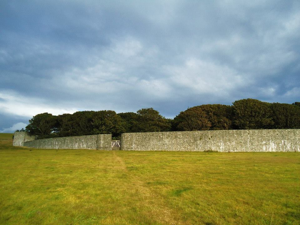 Circular wall designed by Sir Edwin Lutyens, surrounding the old fort on Lambay Island.